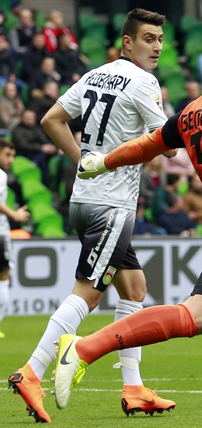 Ionuț Nedelcearu with FC Ufa in a game against FC Krasnodar.